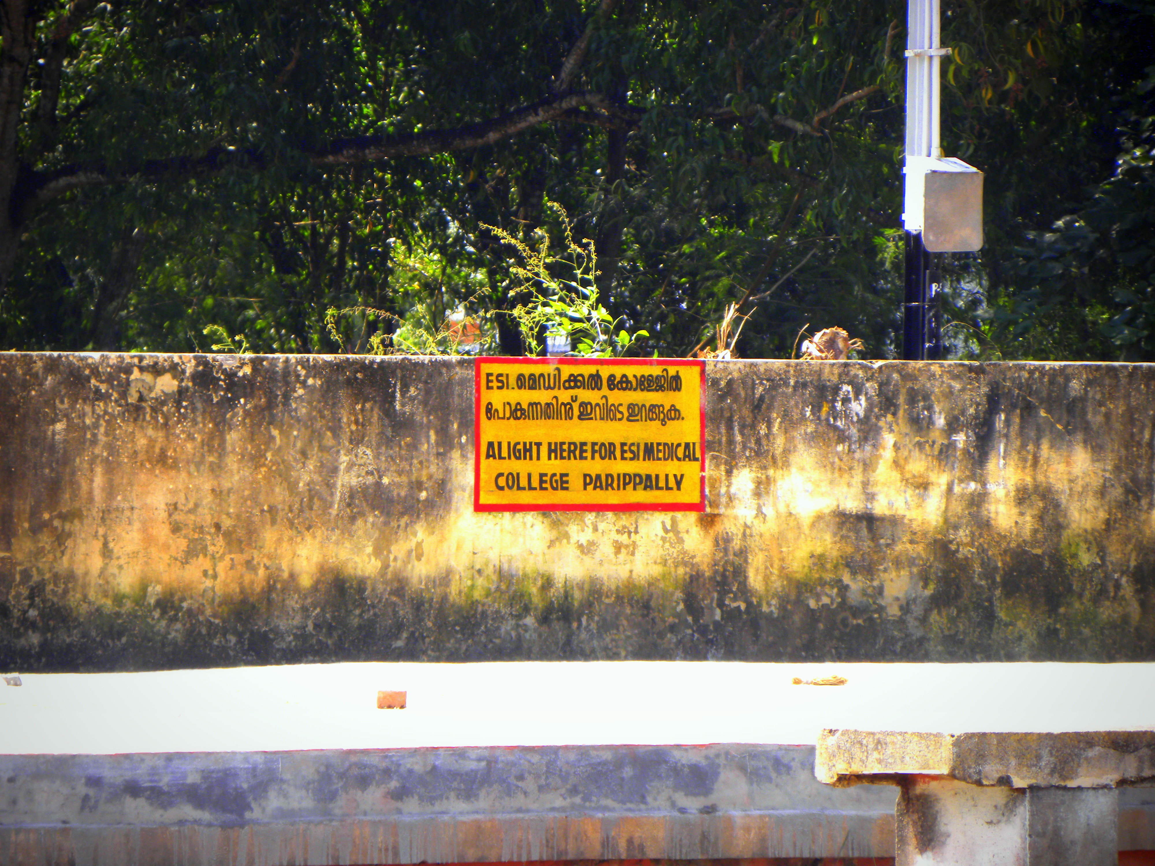 Paravur railway station is the official stoppage station for going to ESI Medical College hospital in Parippally, which is about 8kms away from this station.